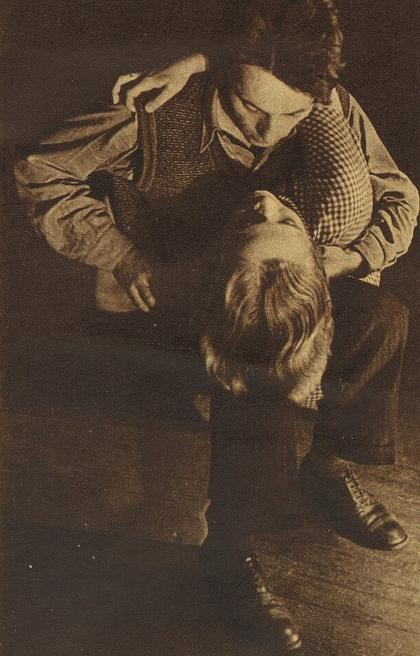 Vladimír Šmeral, Czech actor, Theatre D34, 1934